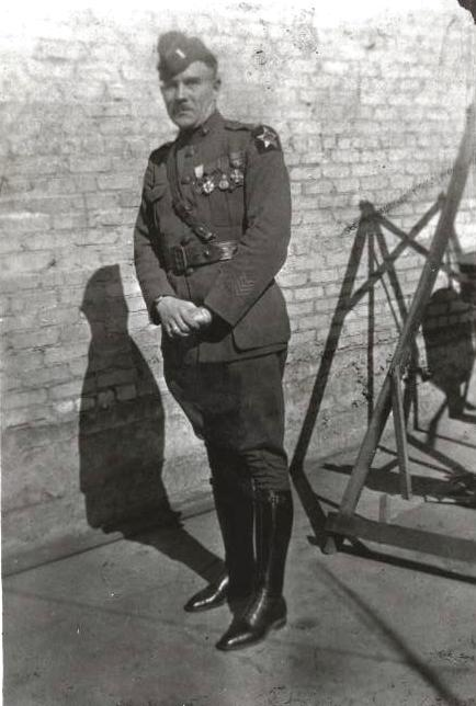 Lieutenant Cukela after his return from France, circa 1918. From the Photograph Collection (COLL/966) at the Marine Corps Archives & Special Collections.